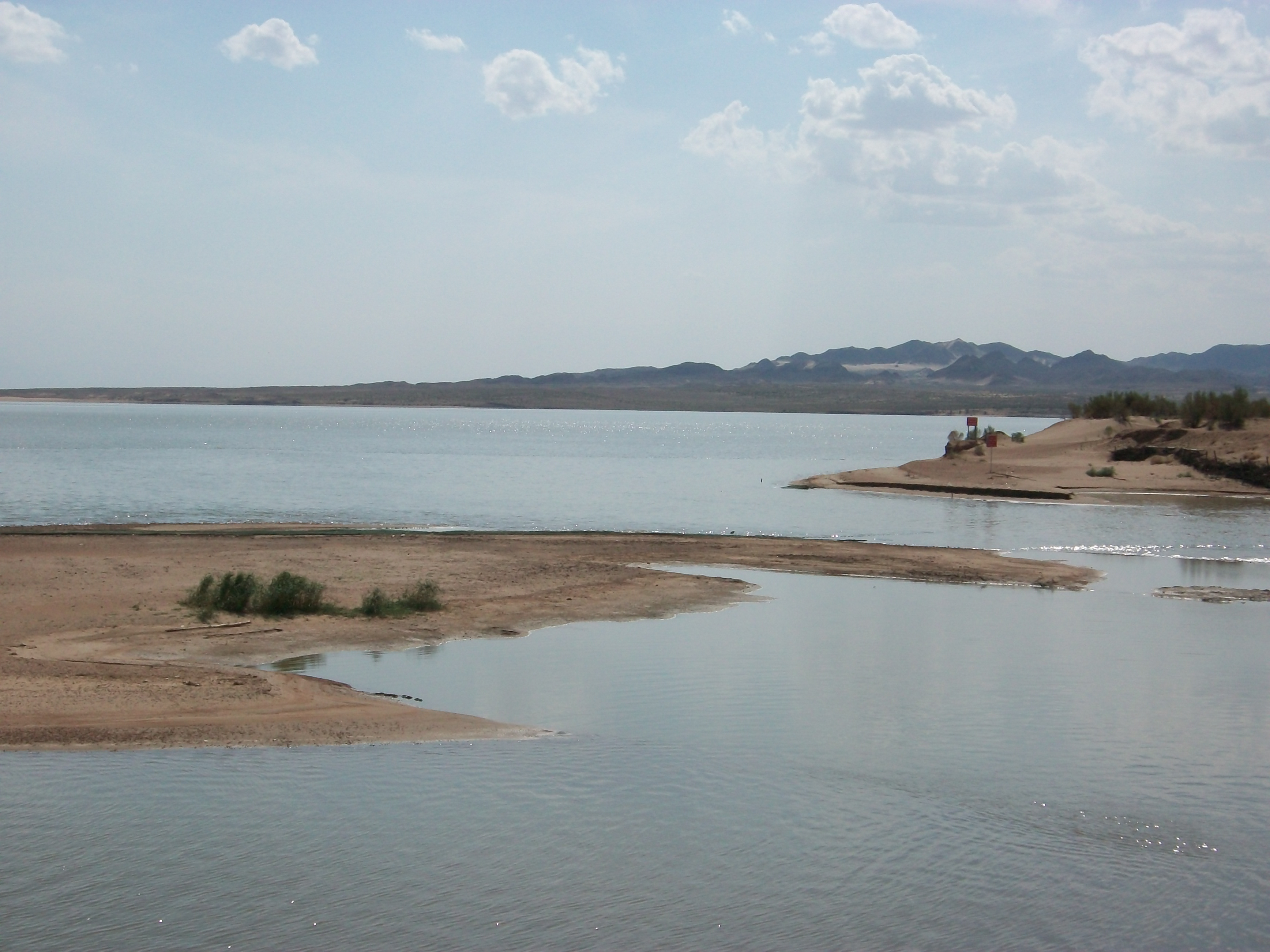 紅崖山水庫一景